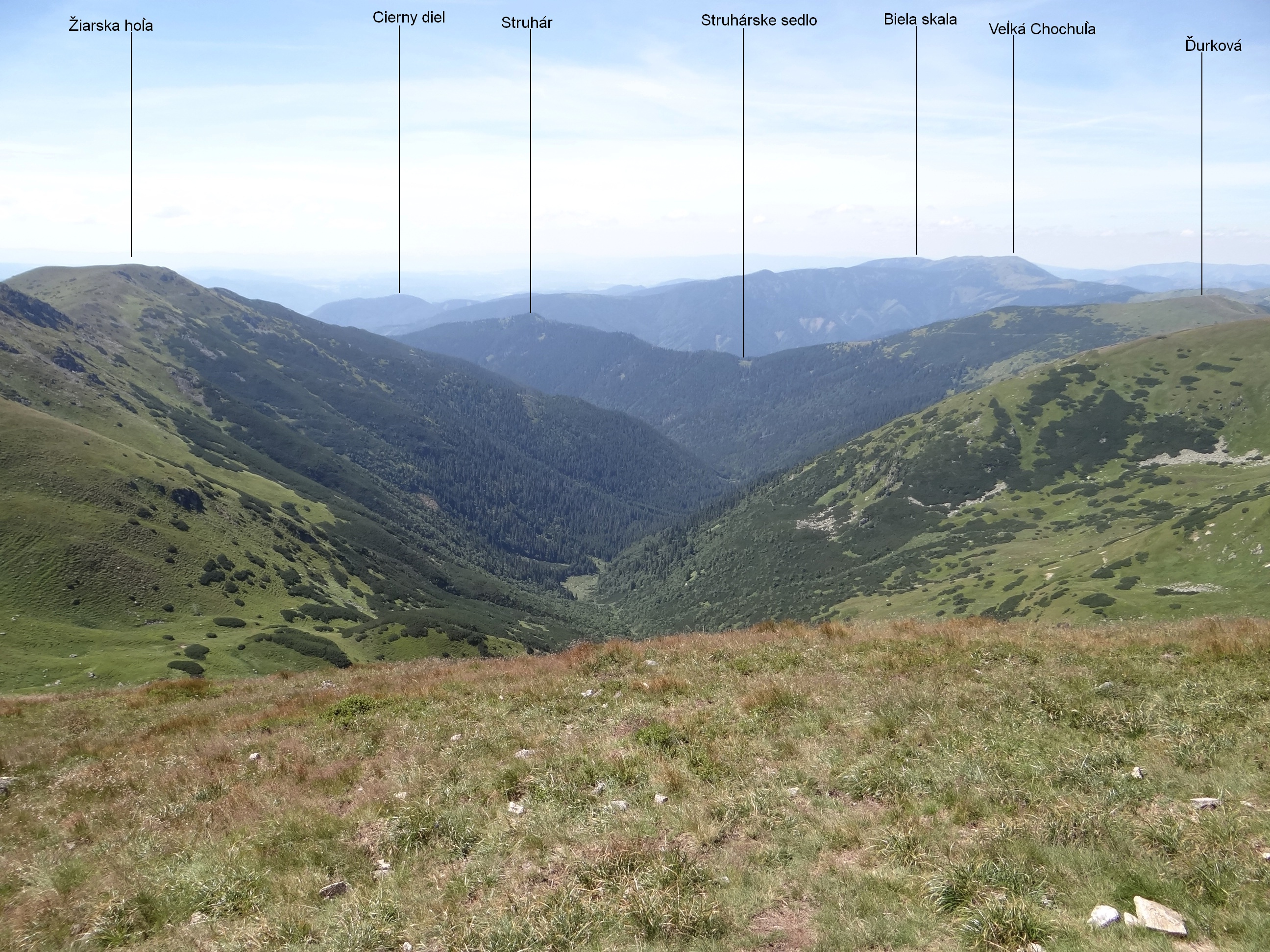 Lomnistá dolina. View from Kotliská